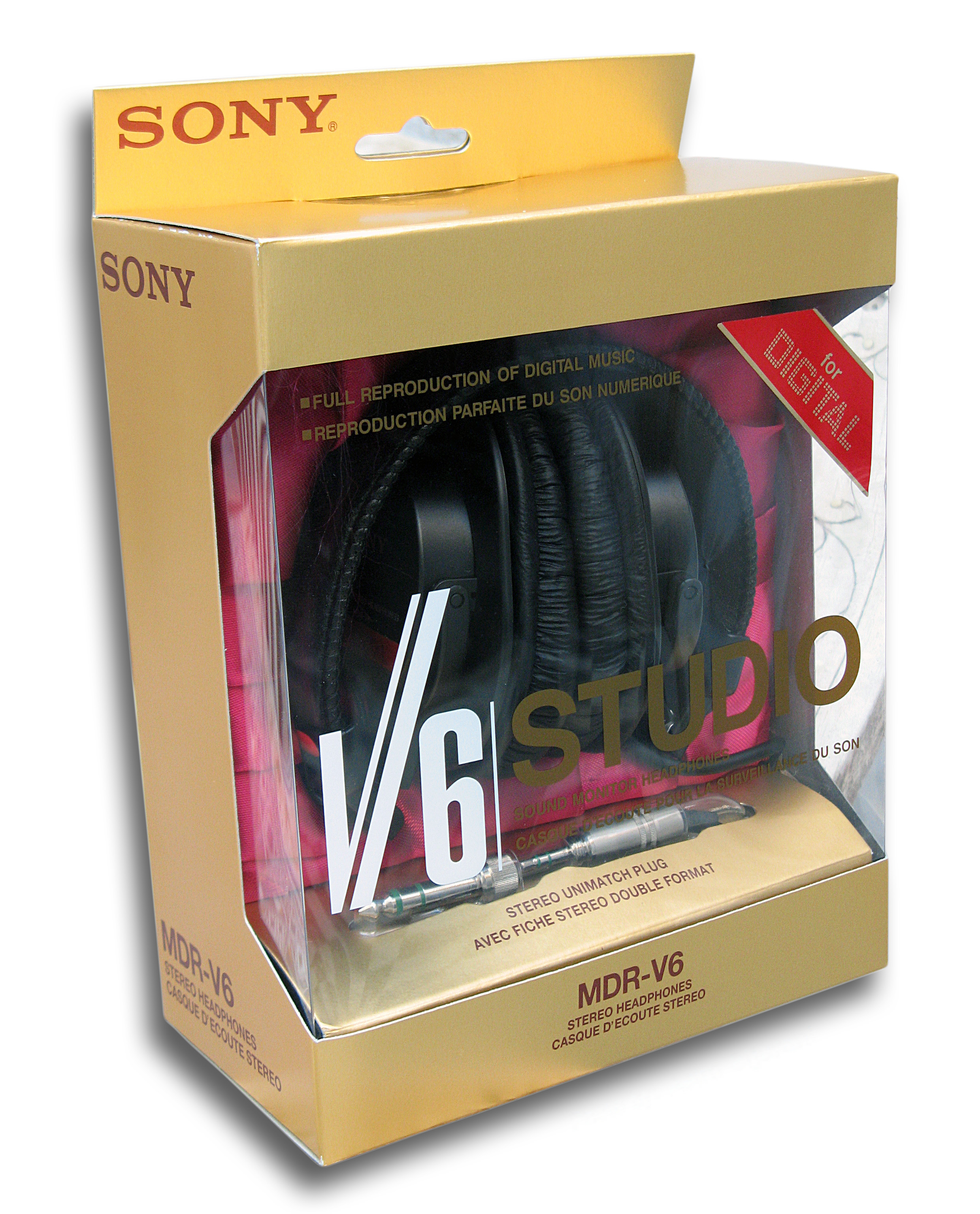 Sony MDR-V6 Studio Motor Headphones with box